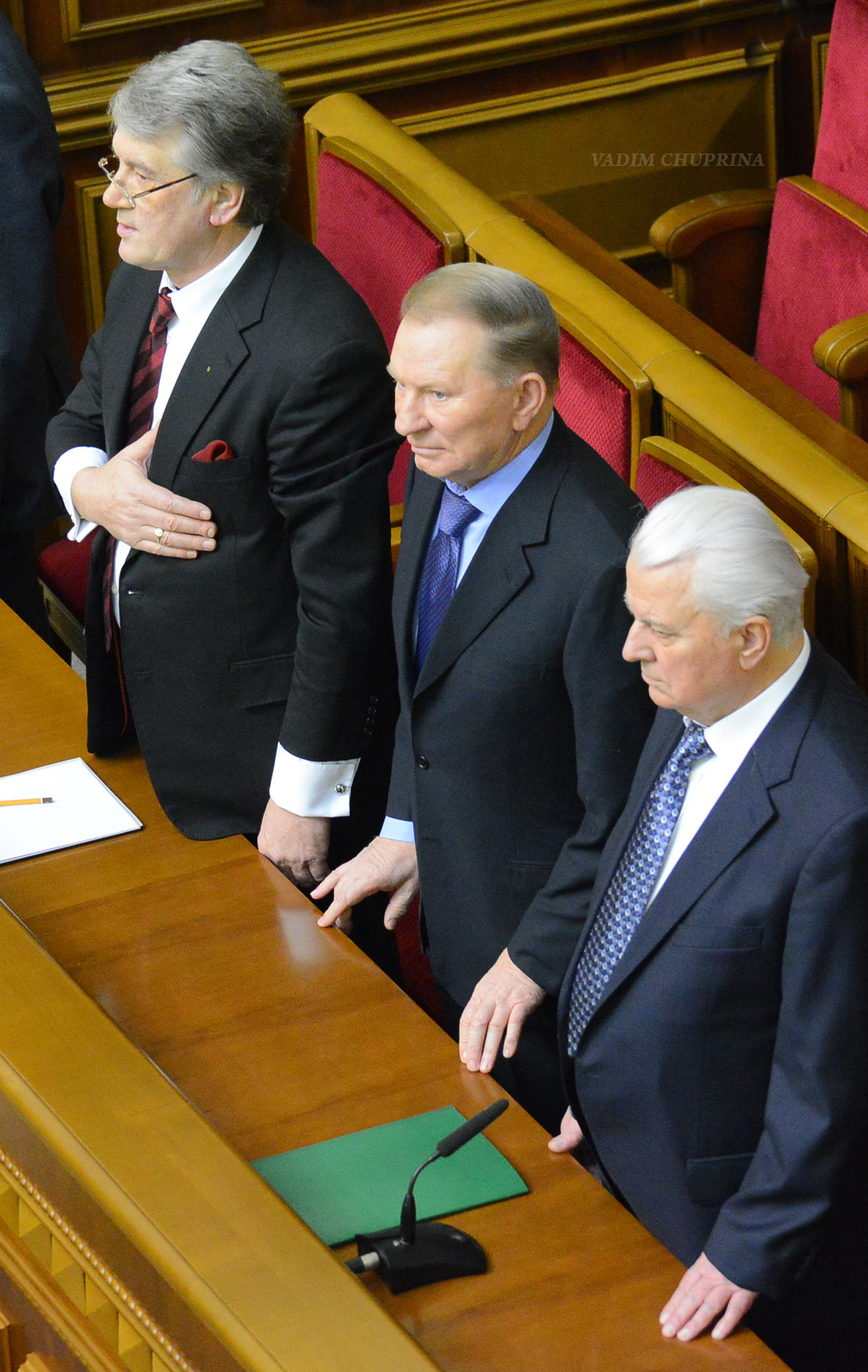 Ukrainian politicians VADIM CHUPRINA